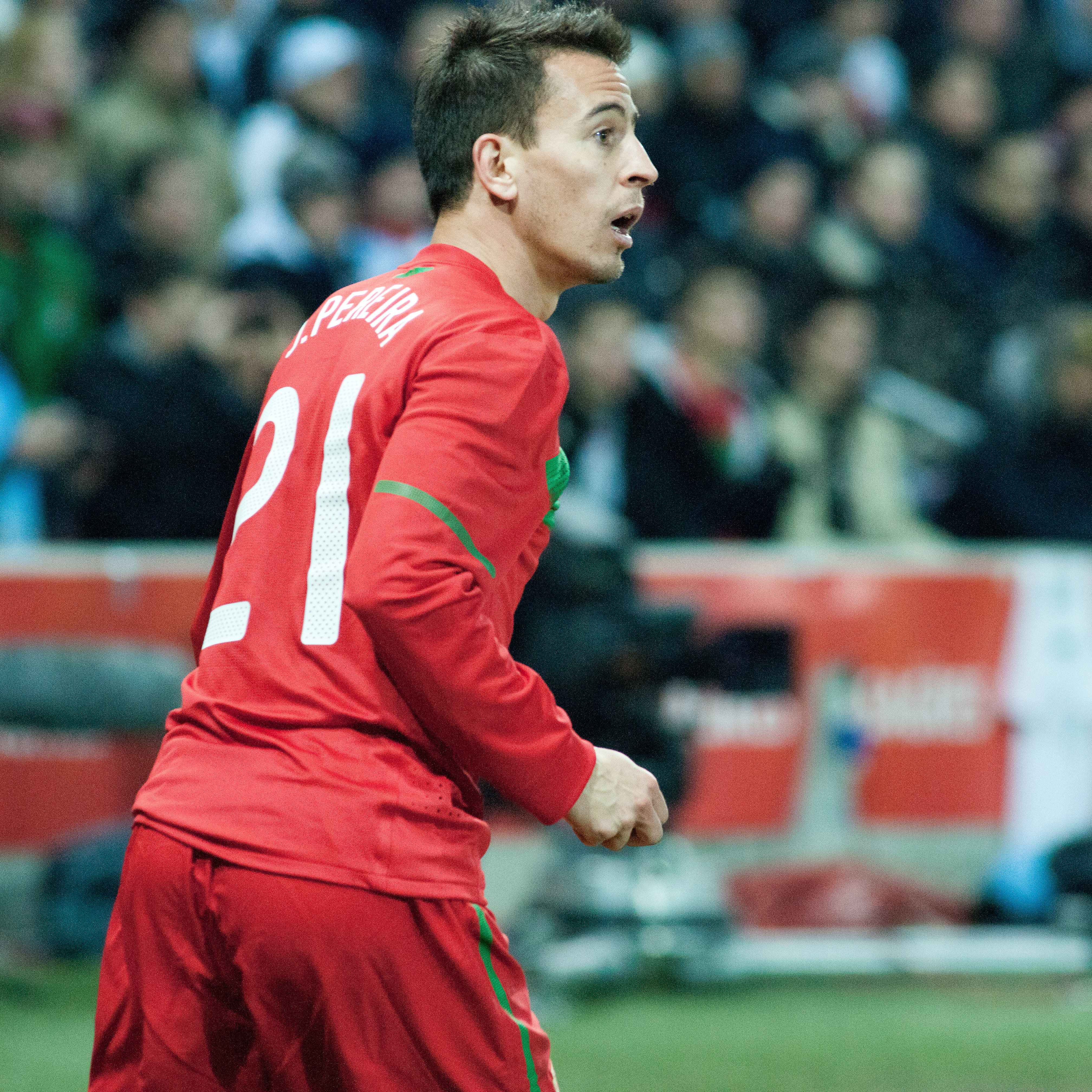 The making of this document was supported by Wikimedia CH. (Submit your project!) For all the files concerned, please see the category Supported by Wikimedia CH. Portugal vs. Argentina, 9th February 2011